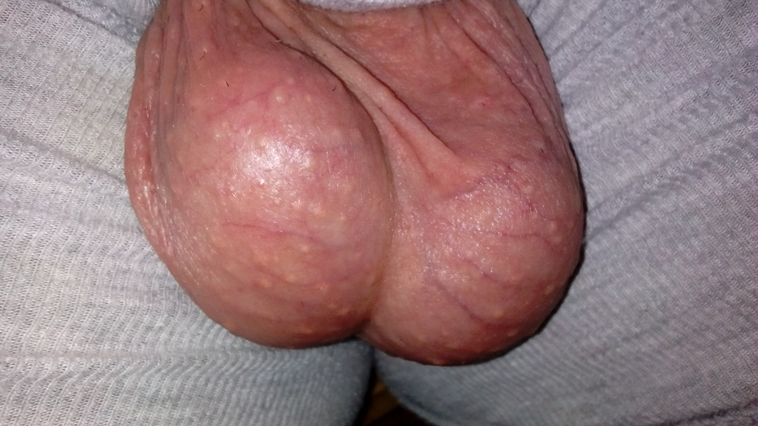 Scrotum